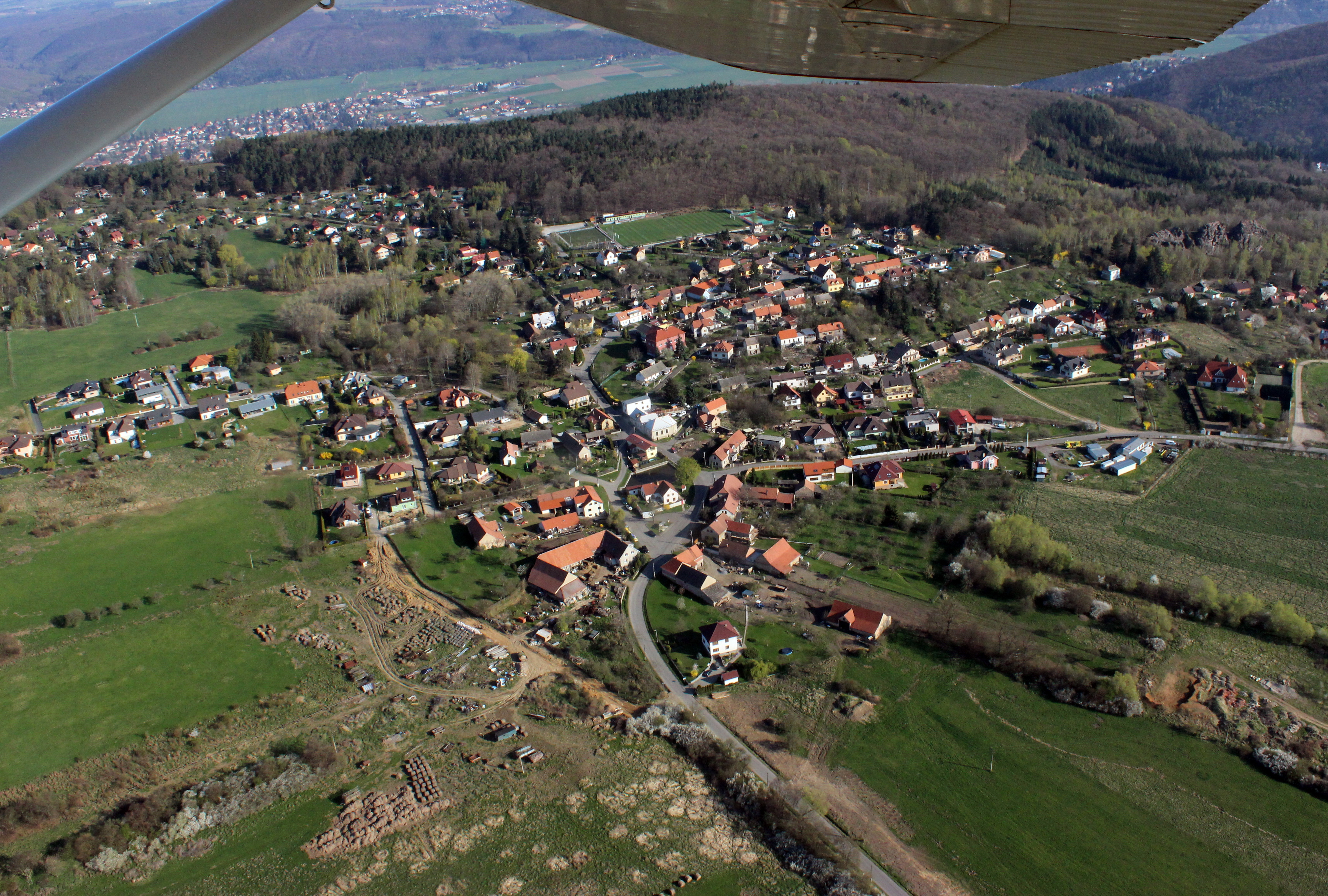 Aerial view of Černolice (Central Bohemia)